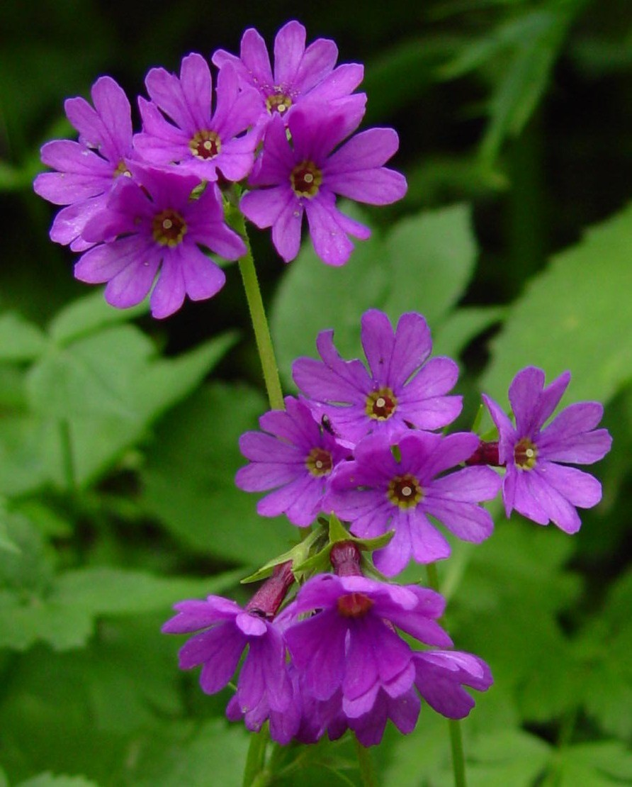 Primula jesoana in Mount Cho